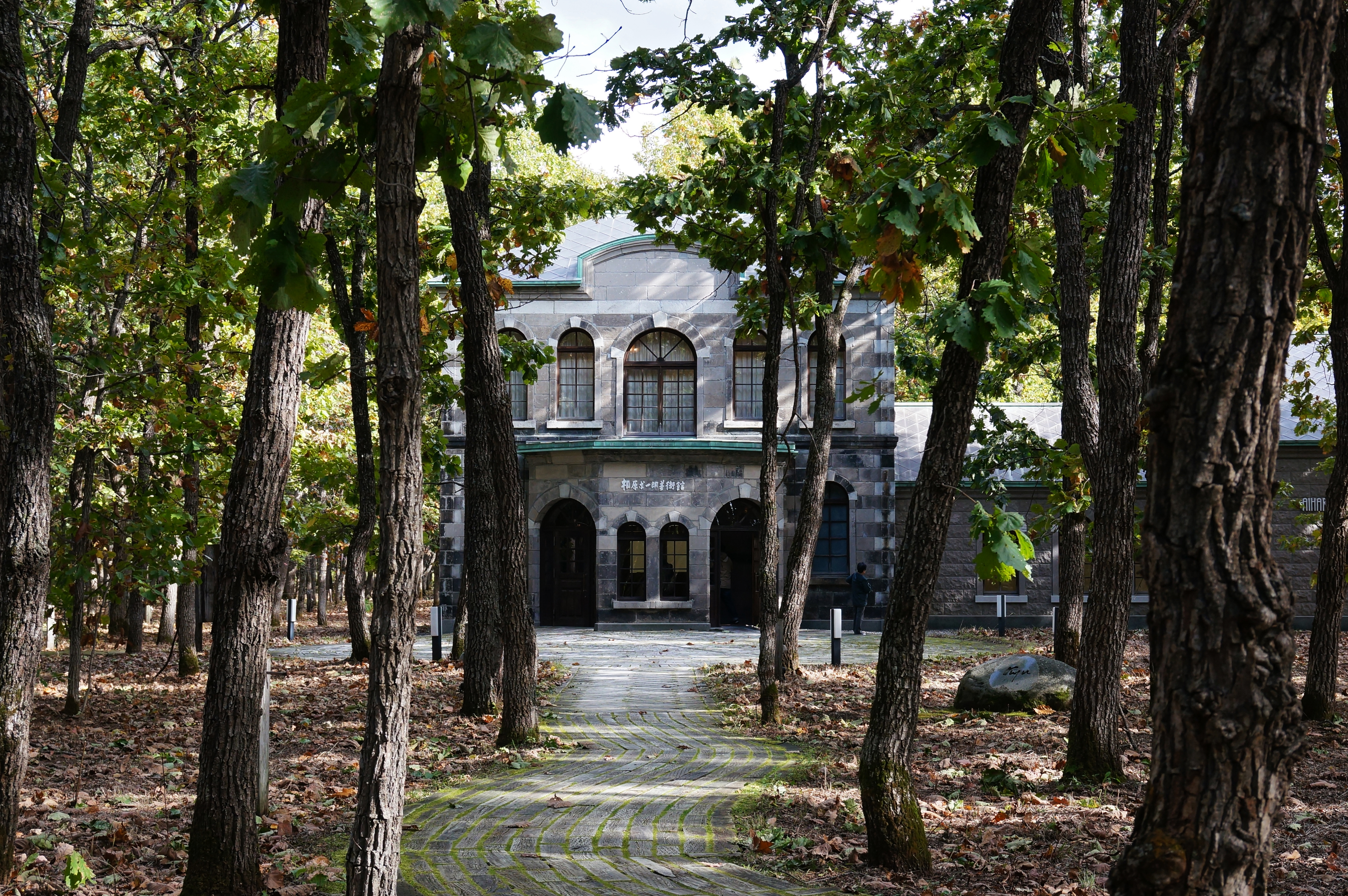 Nakasatsunai Art Village in Nakasatsunai, Hokkaido prefecture, Japan.